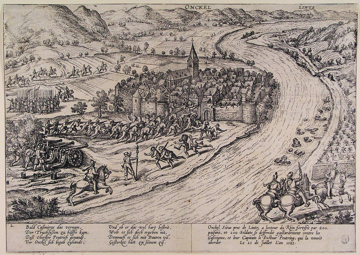 The attack on Unkel (Neuwied), Germany, in 1583. Etching. Rotterdam, Museum Boijmans Van Beuningen Prentenkabinet (inv.no. BdH 14482 (PK)).